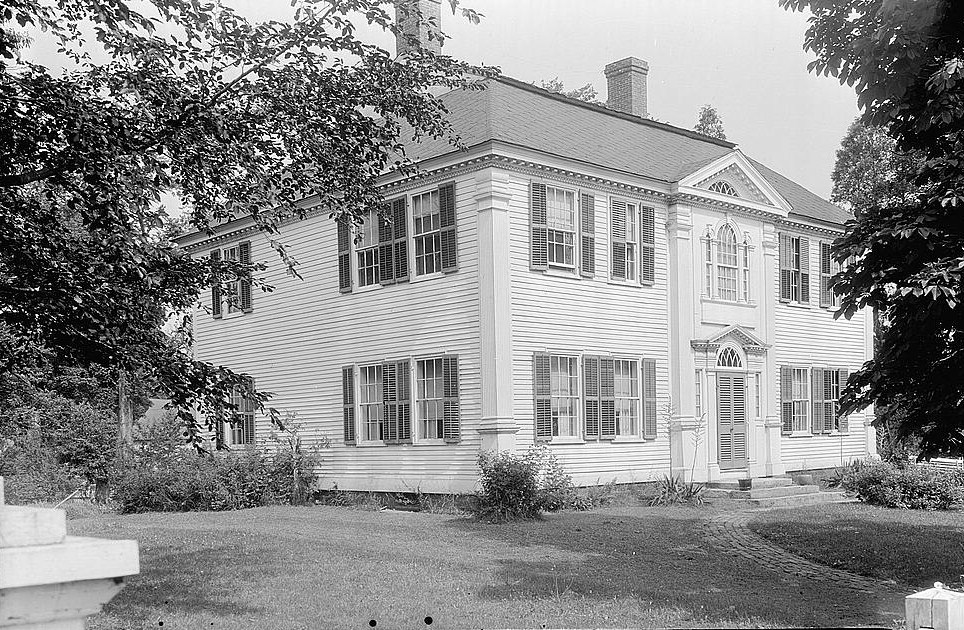 Elisha Payne House, Canterbury (Windham County, Connecticut) (cropped)